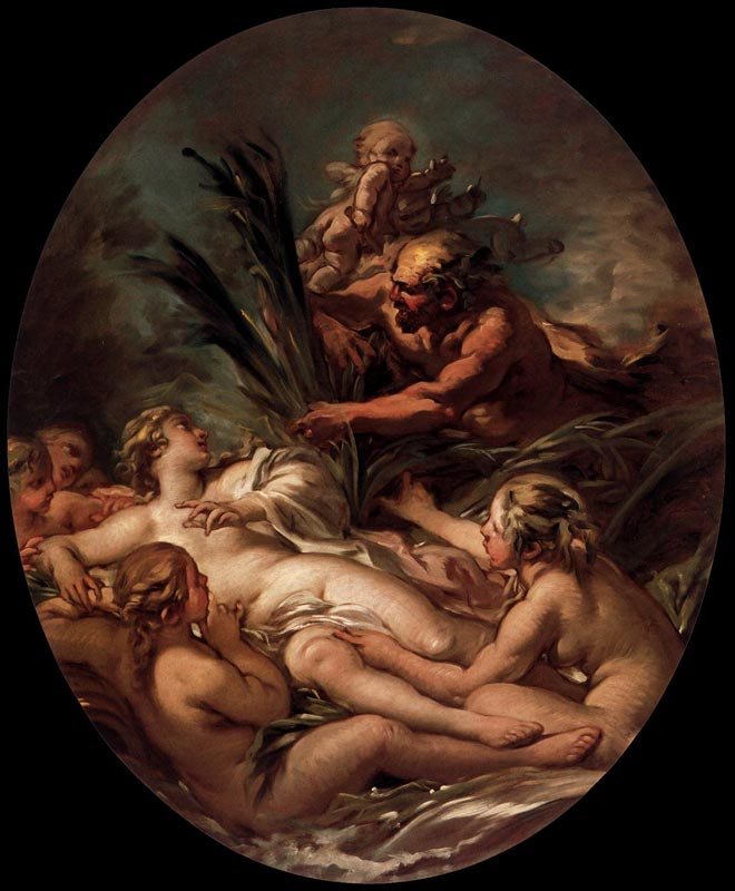 Pan and Syrinx (ca 1762)